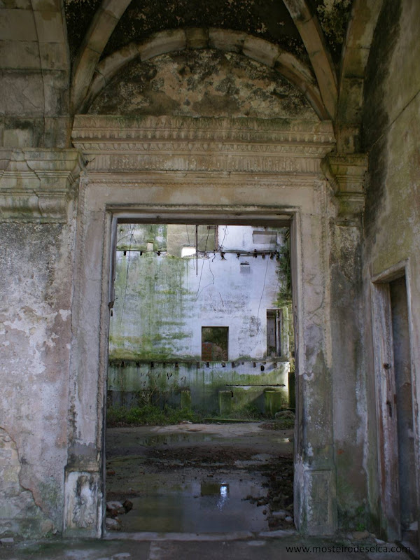 Mosteiro de Seiça 04